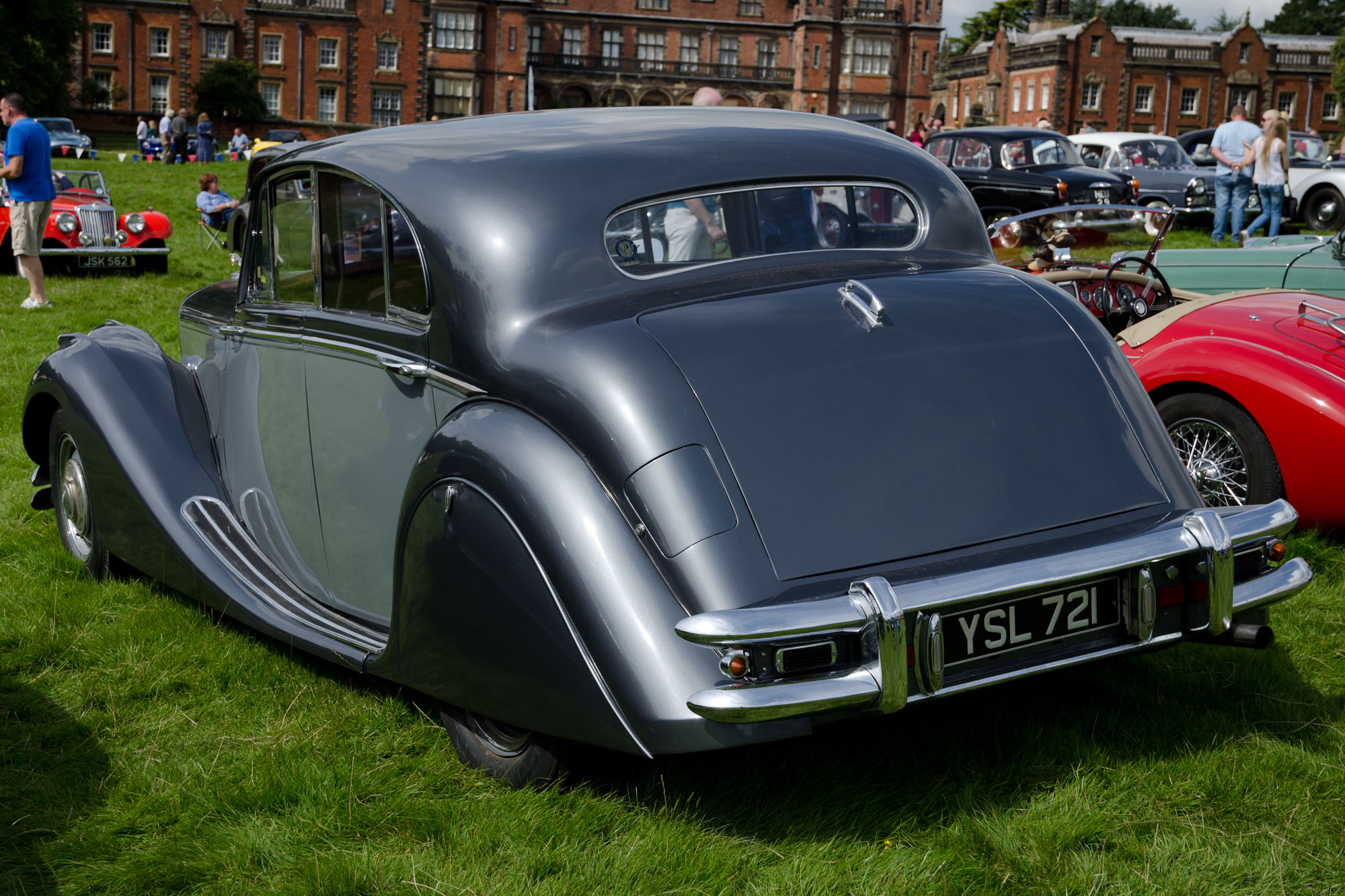 1950 Jaguar Mk V 3½-litre saloon (DVLA) first registered 1950 3488 cc Capesthorne Hall Classic Car Show 24/08/2014